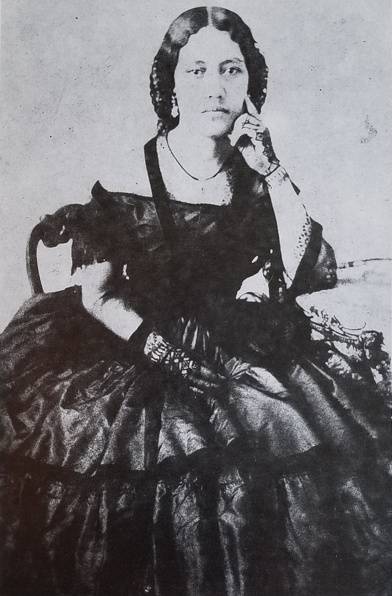 High Chiefess Elizabeth Keka`aniau